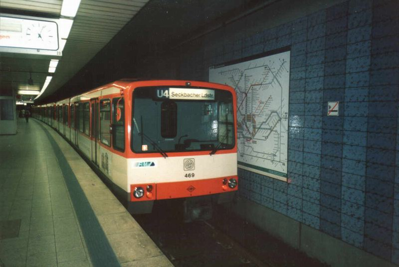 Frankfurt subway train type U3 at line U4 at Seckbacher Landstraße station.